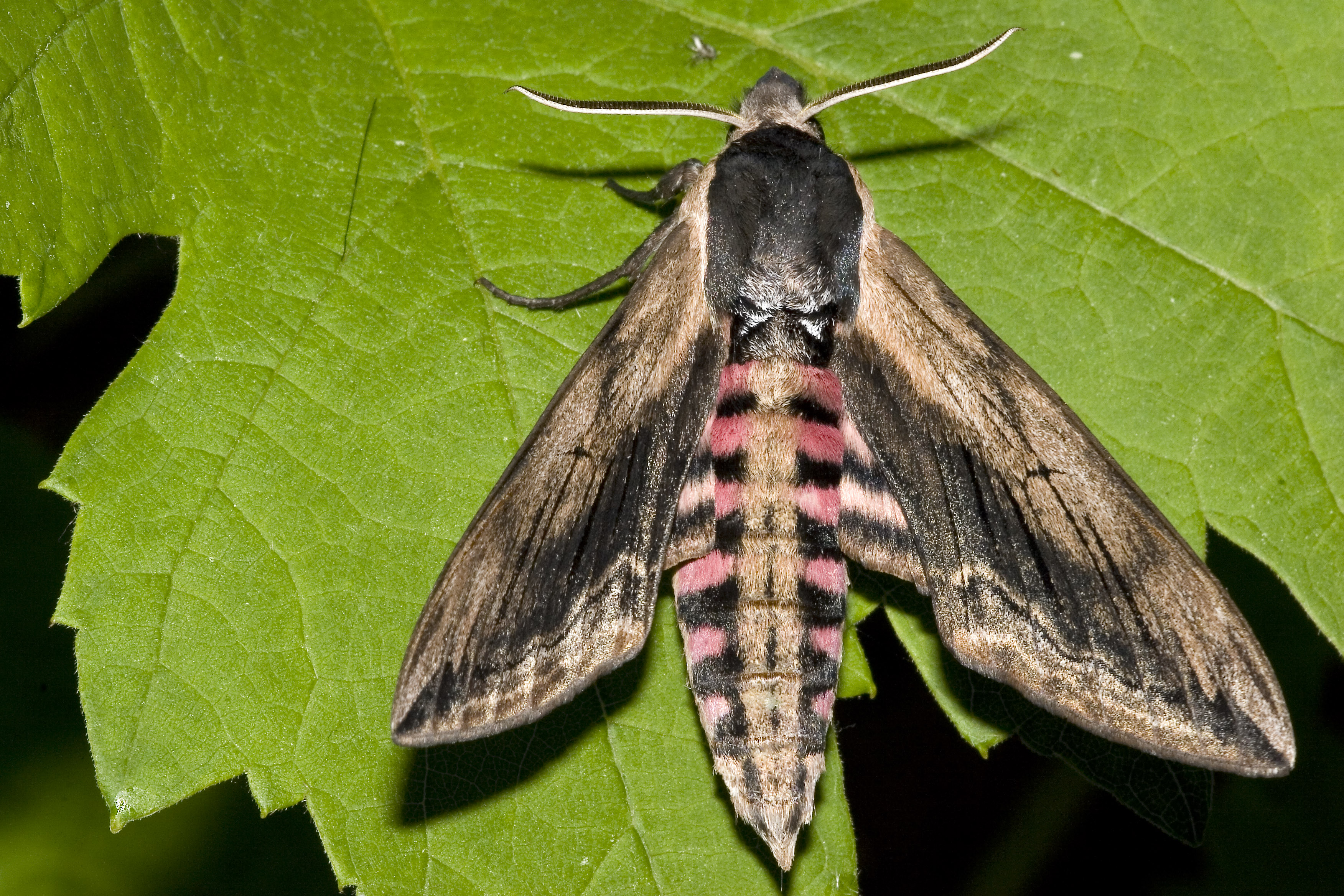 Privet hawkmoth